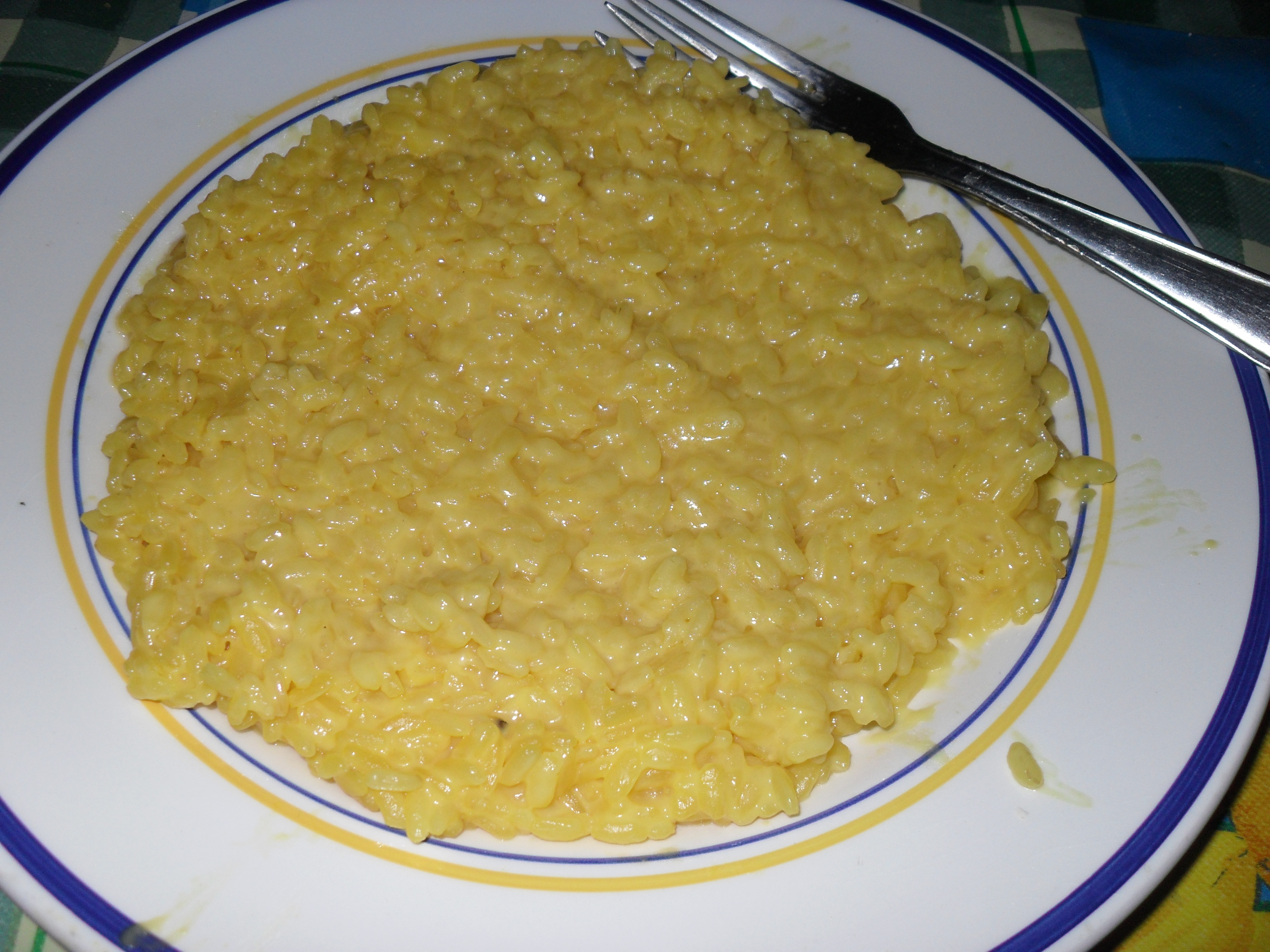 Italian rice dish cooked in Milan ricepes